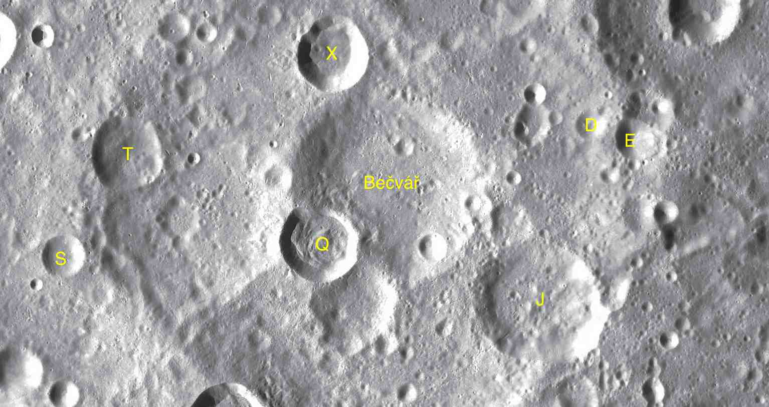 Part of the chart LAC-83 used for the presentation